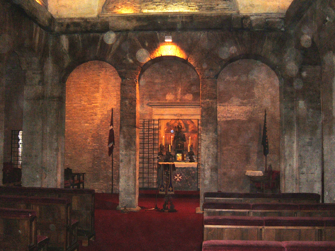 L'intérieur de la chapelle de Saint Jean Baptiste des Chavaliers de Rodi, à Rome, dans le quartier Monti.